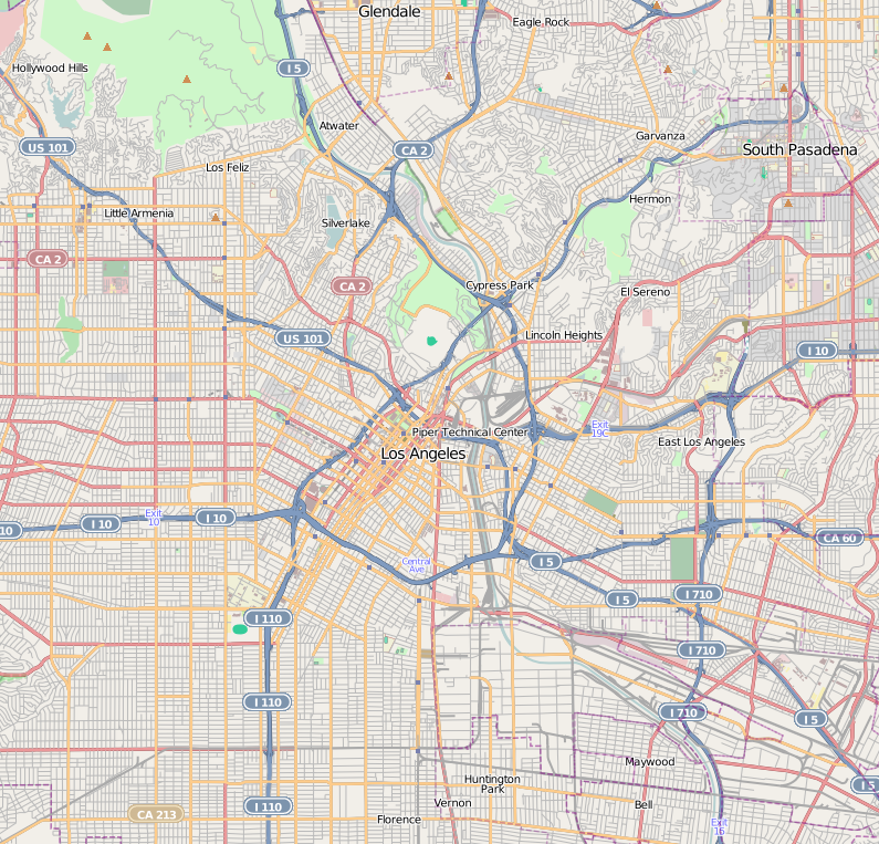 This map of Downtown Los Angeles and immediate area was created from OpenStreetMap project data, collected by the community. This map may be incomplete, and may contain errors. Don't rely solely on it for navigation. Border coordinates34.1444-118.348←↕→-118.12833.9695